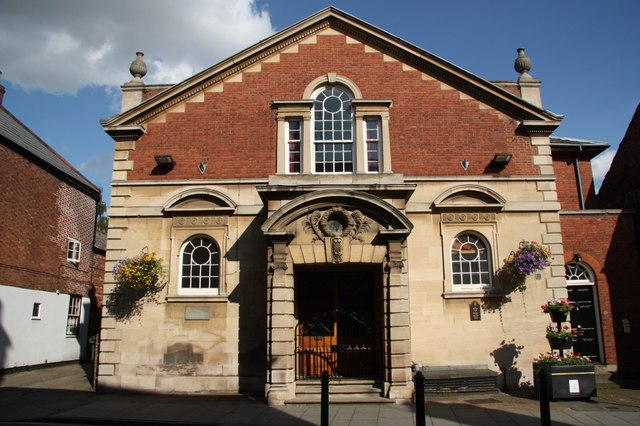 County Assembly Rooms Classical frontage added by the architect William Watkins in 1914 concealing a grand Georgian building of 1744 with sumptuous interior